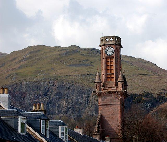 Tower in Tillicoultry (2) The former Popular Institute Tower.